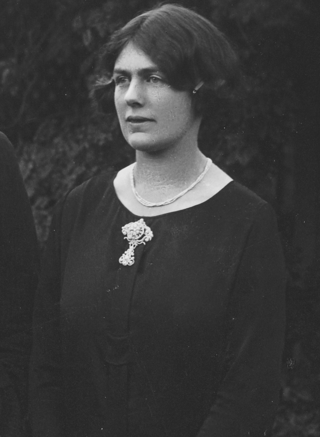 Joan Lindsay ca. 1925. Note that this image is flipped left-to-right compared to the original.